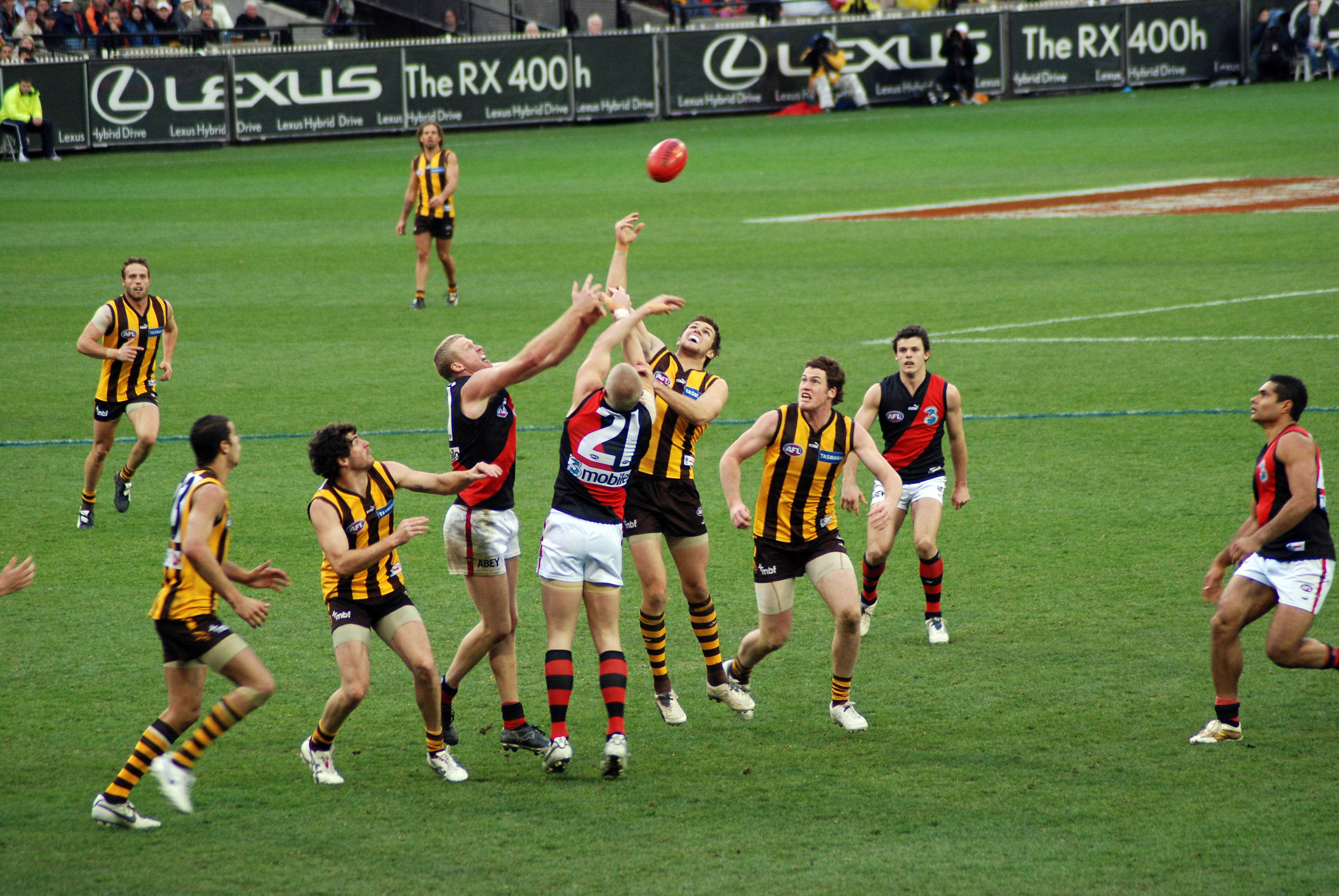 A stoppage in an AFL game between the Hawks and the Bombers.